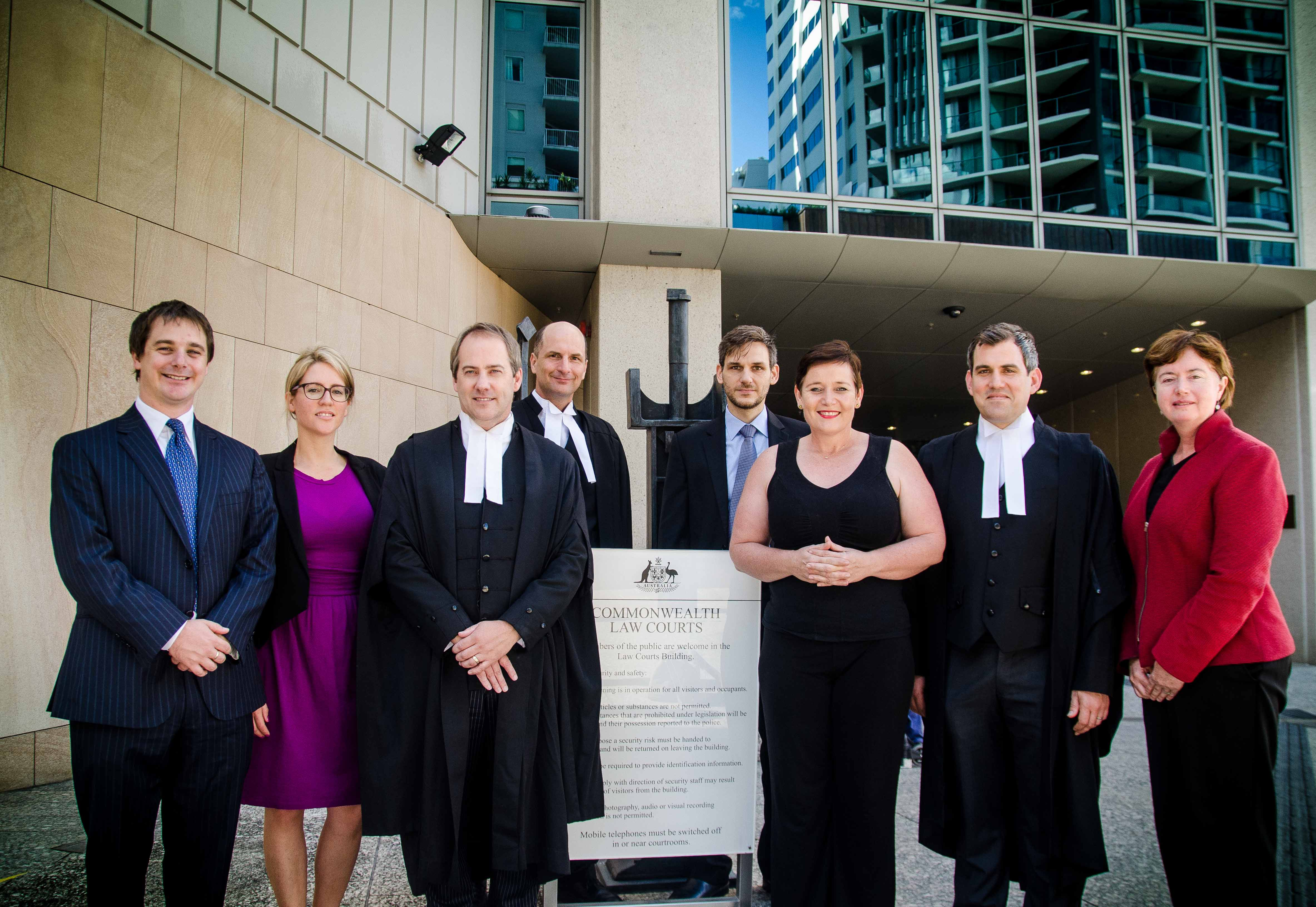 Kelly O'Shanassy, ACF's Chief Executive Officer, and the legal team from the Environmental Defenders Office QLD at the court case hearing about the federal government’s approval of Adani’s Carmichael coal mine. Brisbane 2016. Photo taken by Karl Goodsell.